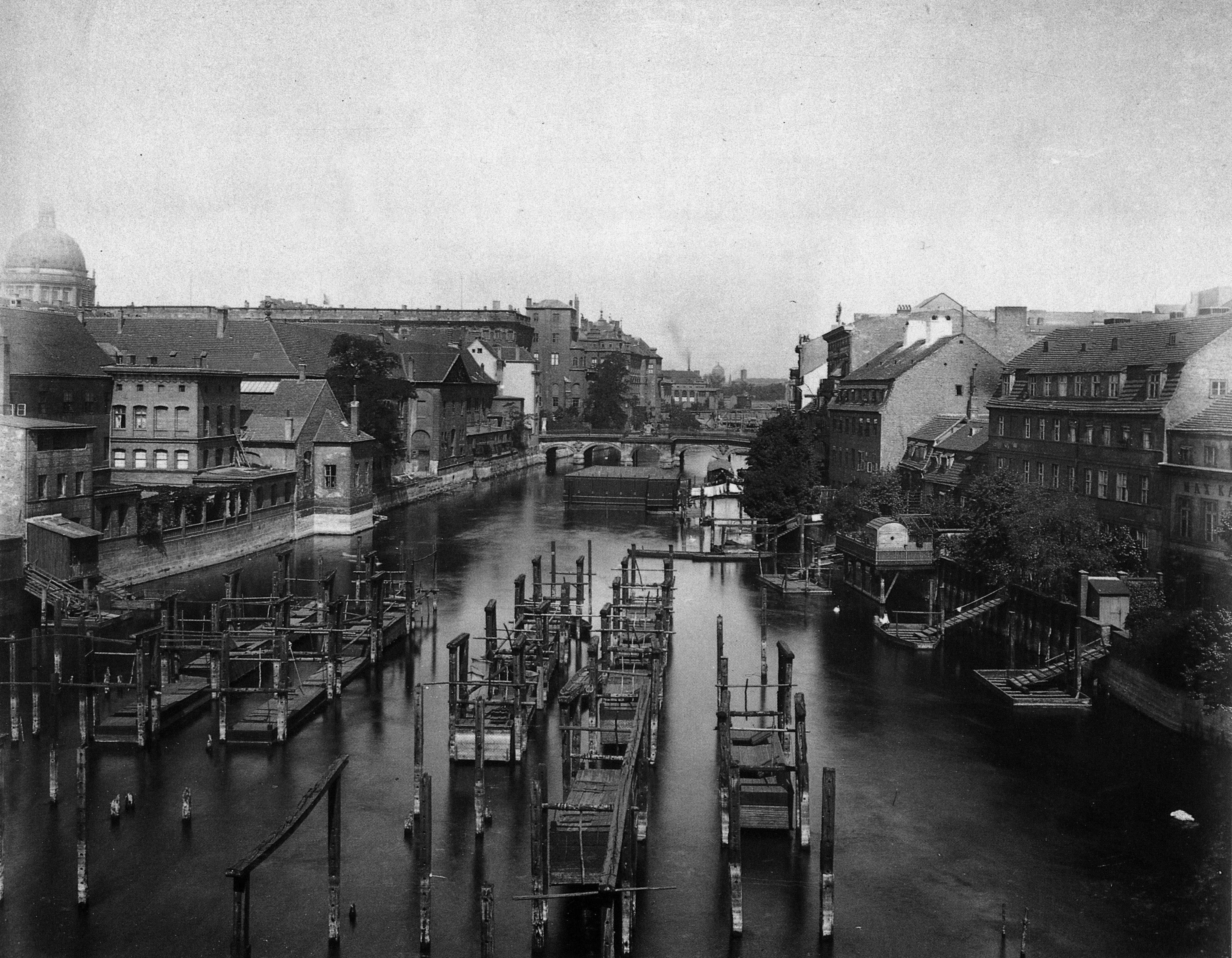 View on River Spree between Cölln and Old Berlin. In the background lies Kurfürstenbrücke (“electors bridge”, now Rathausbrücke).